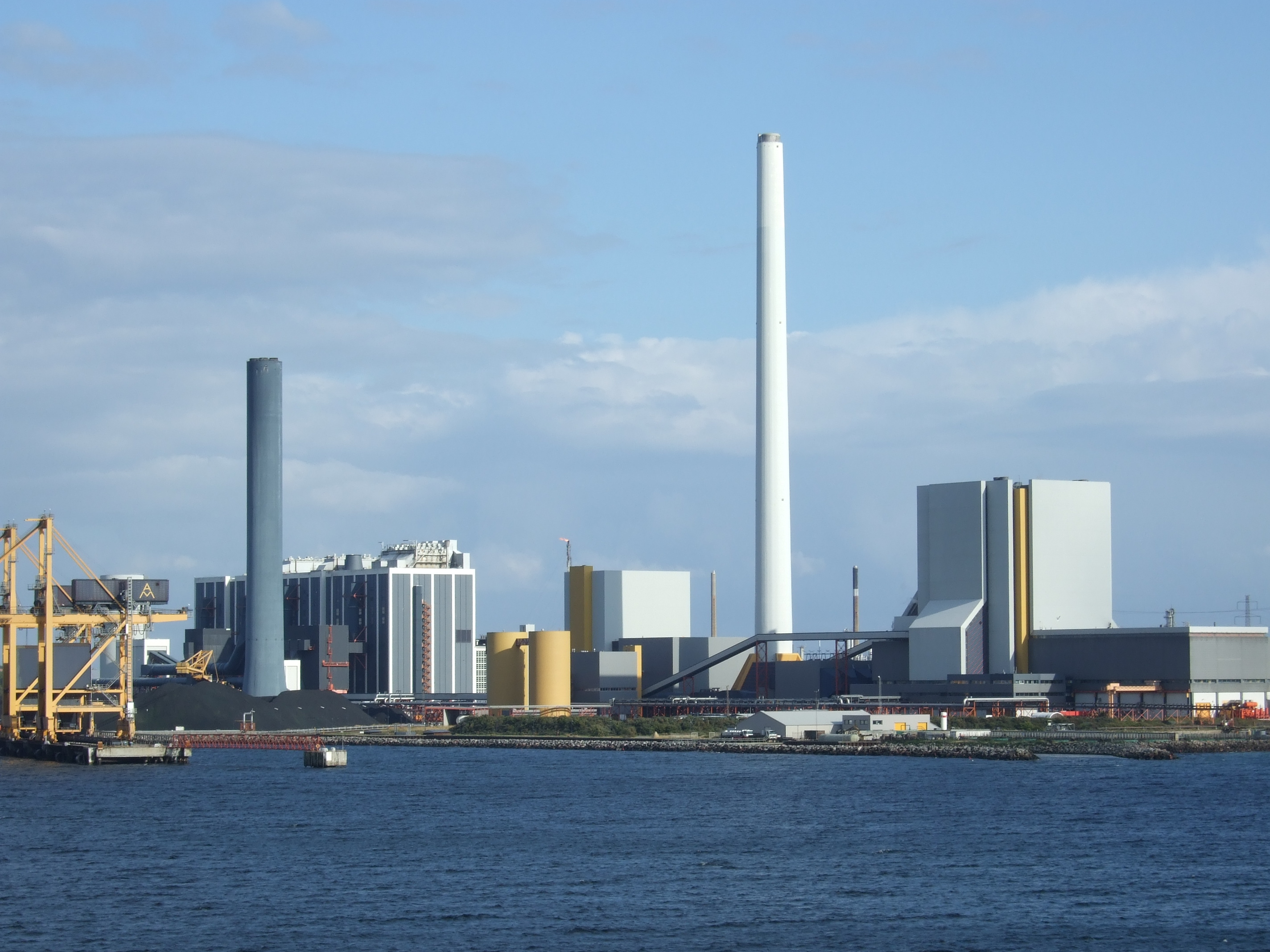 view of Kalundborg Eco-Industrial Park, taken from the Asnaes Power station